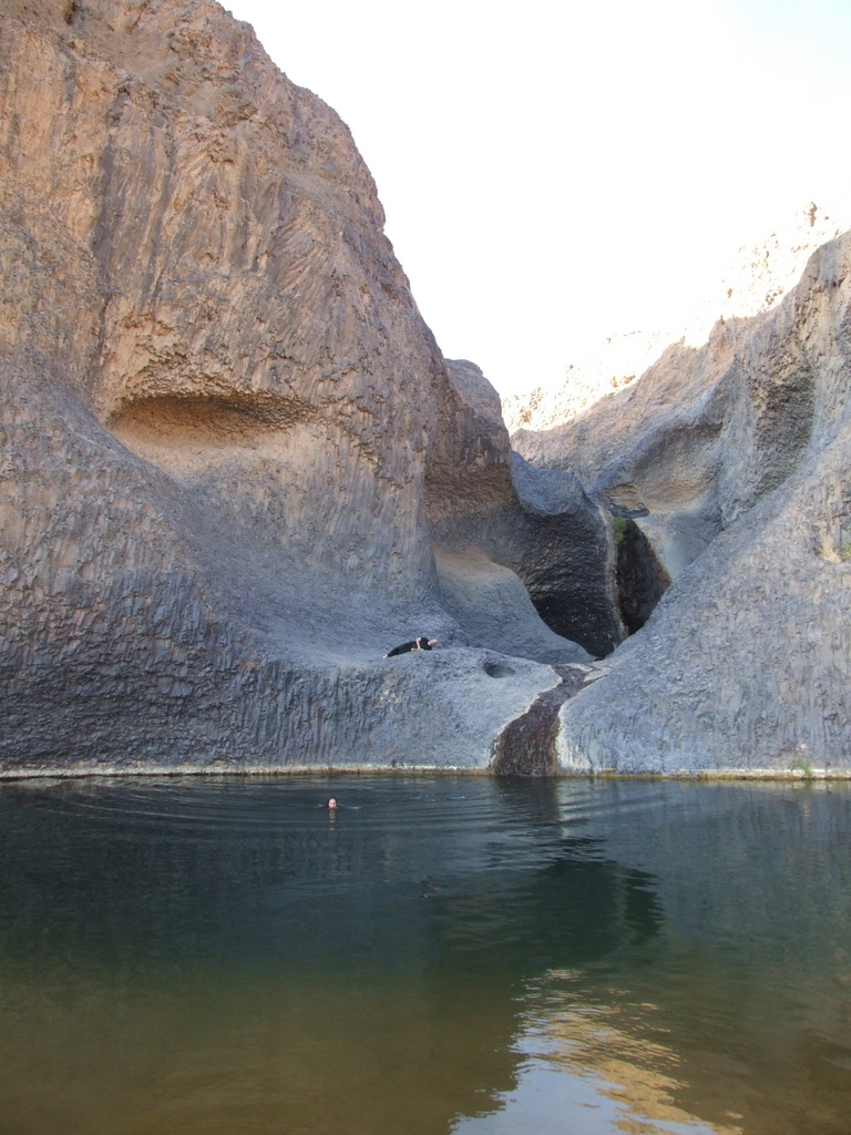 The Oasis of Timia, the thing that makes Timia. Photo by Me Denver Maxwell